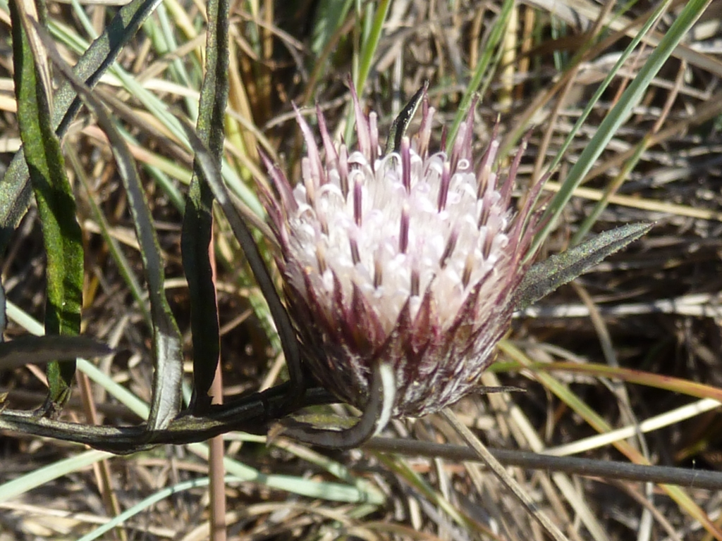 Stomach bush on the Phalandingwe trail, Pelindaba